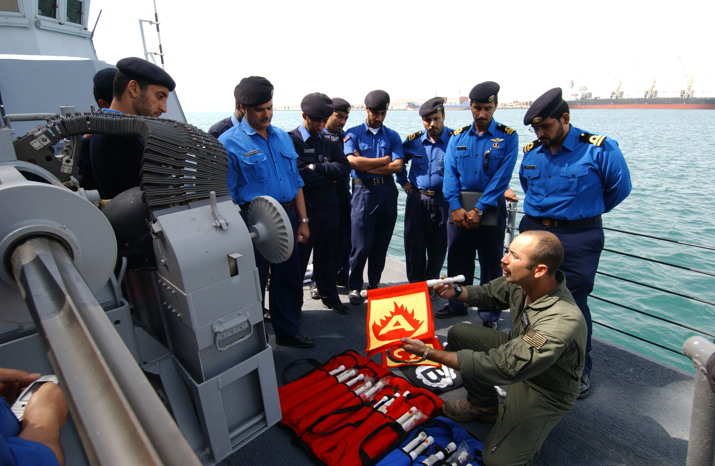 Qatar (Apr. 4, 2005) - Damage Controlman 1st Class Kenneth Gibson instructs Qatari Sailors on damage control aboard the Cyclone-class patrol coastal boat USS Chinook (PC 9). The United States, British and Qatari Navies are participating jointly in Operation Eastern Sailor in the Central Persian Gulf. Exercise Eastern Sailor 05 is a multi-lateral tactical surface exercise, practicing interoperability between the country’s surface and air assets. U.S. Navy photo by Photographer’s Mate 1st Class Robert McRill (RELEASED)